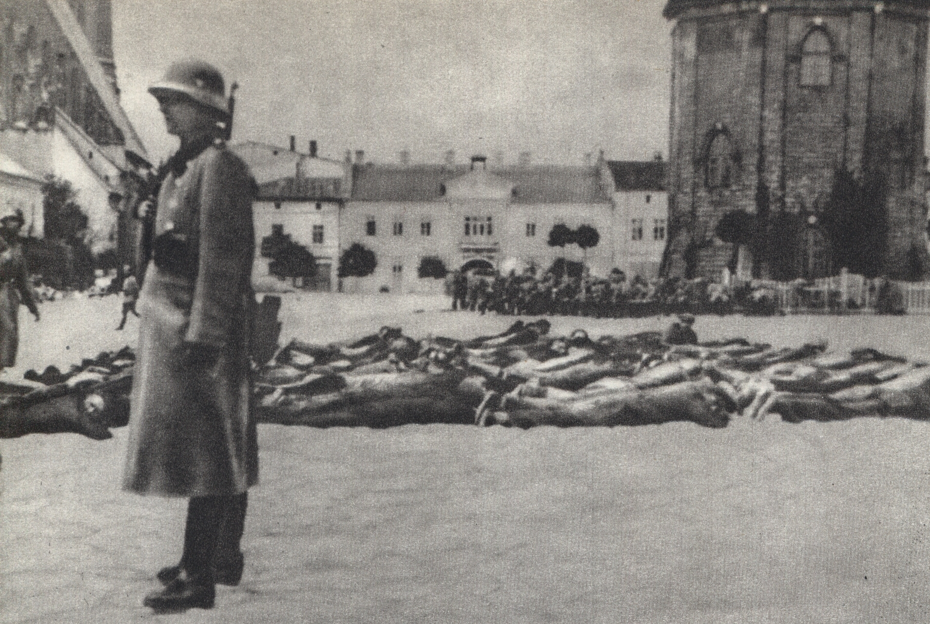 The Bloody Wednesday in Olkusz, German-occupied Poland, 1940.